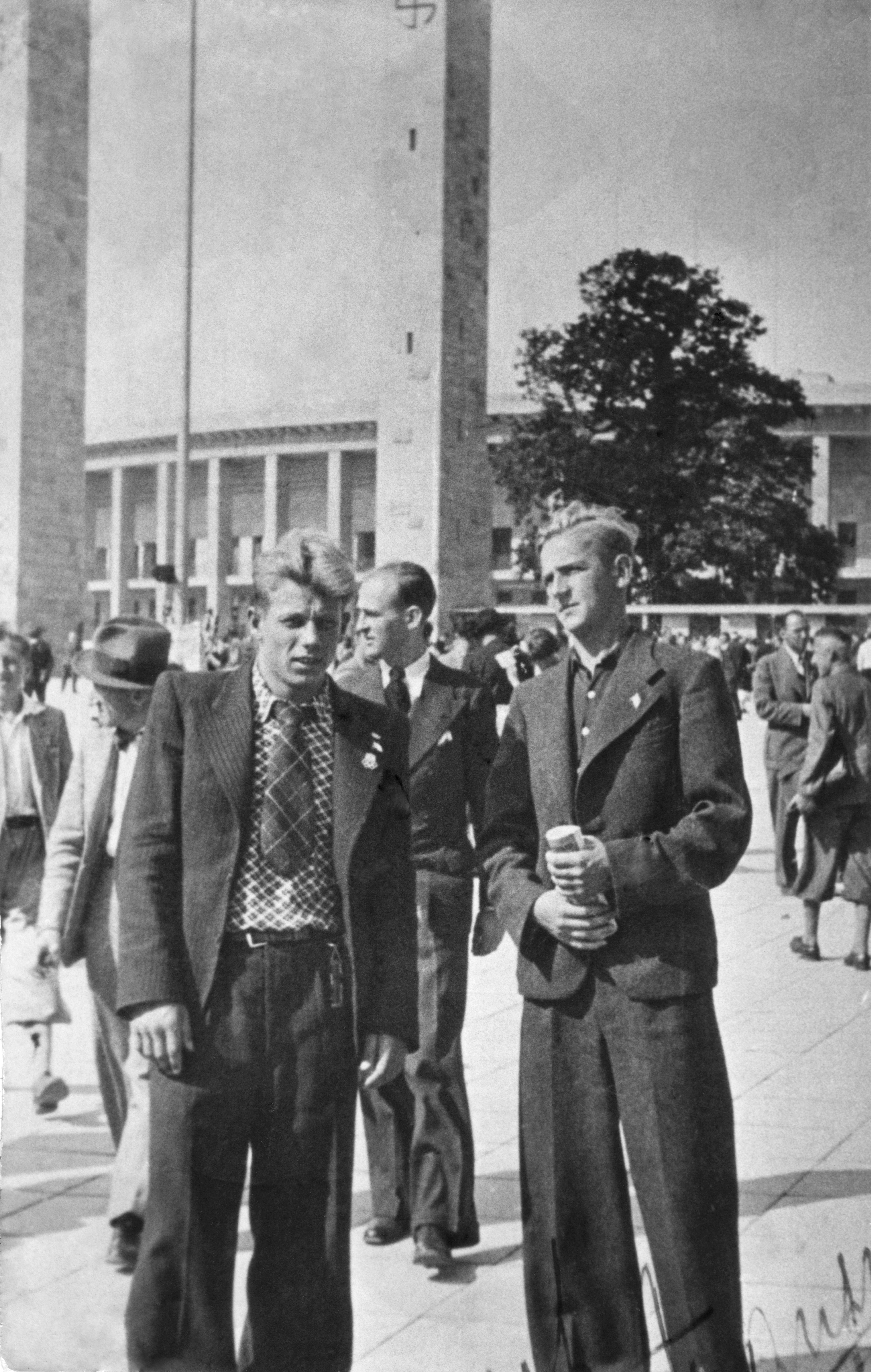 Lithuanian swimmers (from KJK Kaunas) standing near the main gates to the Berlin Olympic Stadium (from the left): swimmer and diver (3 m. springboard) Jurgis Astrauskas (1916-2003) and swimmer Kostas Skirgaila, who have been banned from participating in the 1936 Berlin Olympics due to famous Lithuania’s Kaunas trial (world’s first nazi trial known also as Neumann-Sass case, when Lithuania from 14th of December 1934 till 16th of March 1935 suited 87 nazies from Klaipėda). Berlin, August, 1936. Picture (photocopy) from Jurgis Astrauskas personal archives.